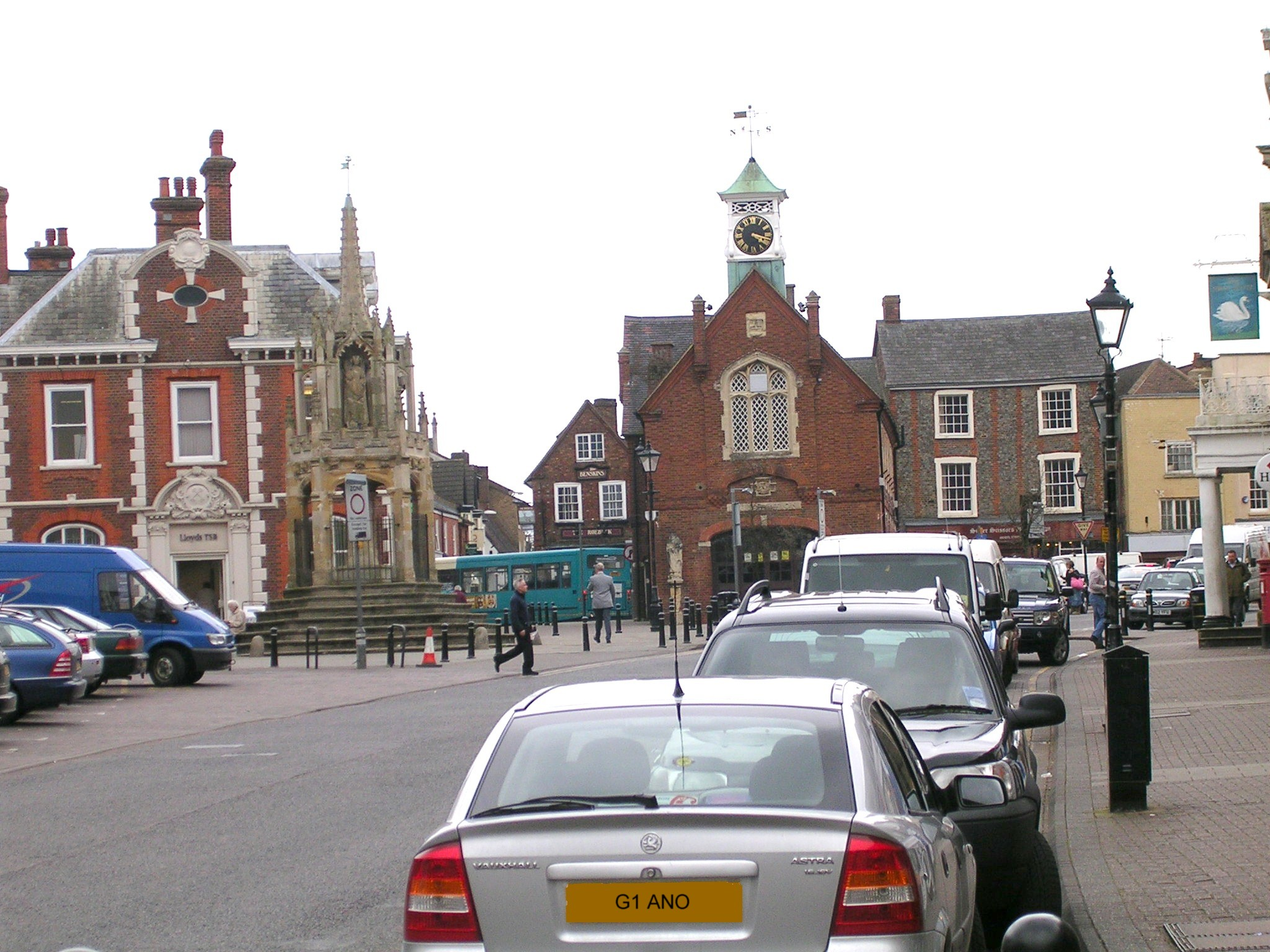 Leighton Buzzard, High street. April 2006. Photographed by uploader. Who releases all rights.